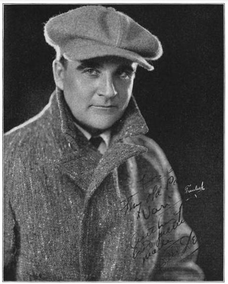 William Desmond (January 23, 1878 – November 3, 1949) was an Irish-born American acto